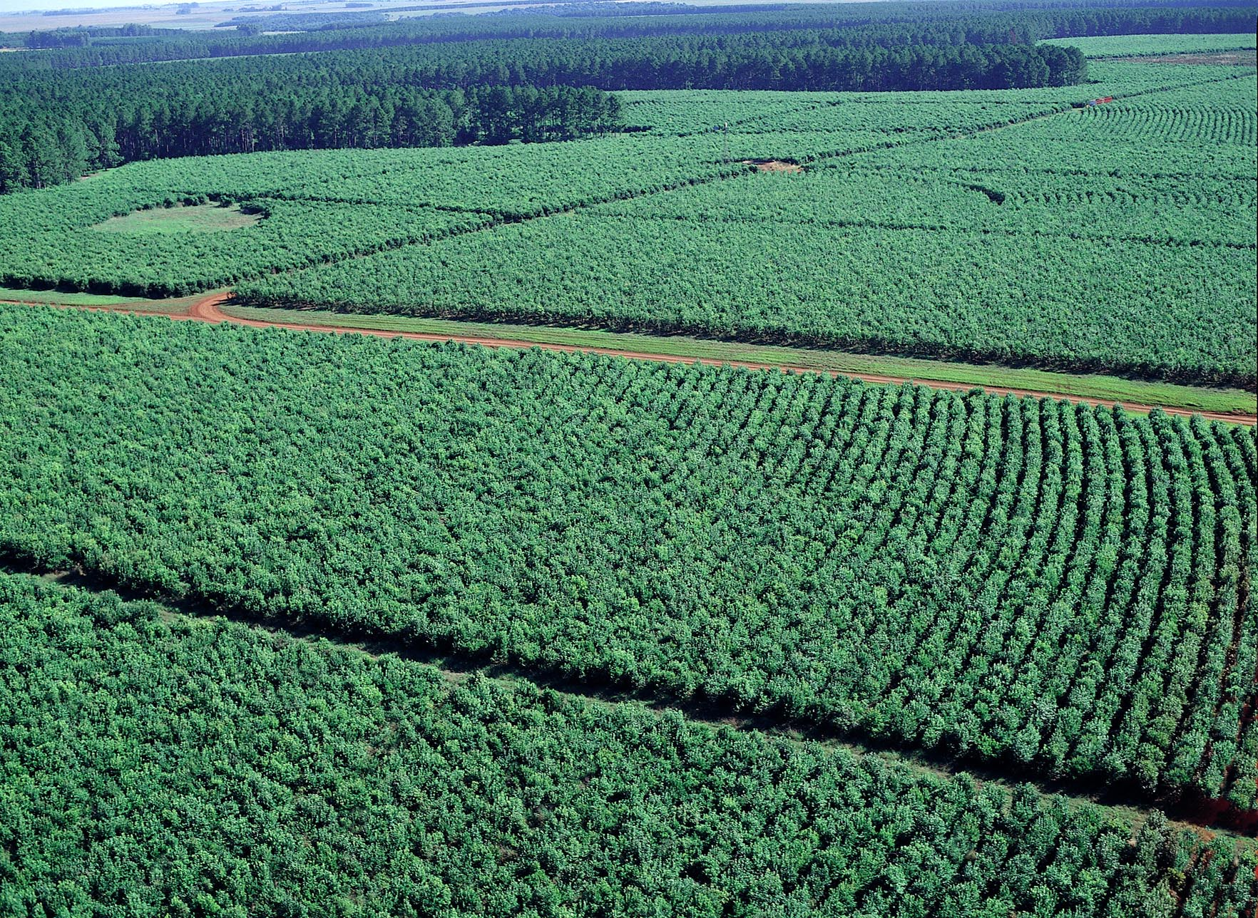 Taragüí, the Guaraní word for “Corrientes”—the name of the province in which Establecimiento Las Marías is located—is the flagship brand of the company. Leader in the Argentine as well as global markets, Taragüí offers a quality and personality that have remained unaltered through the years.